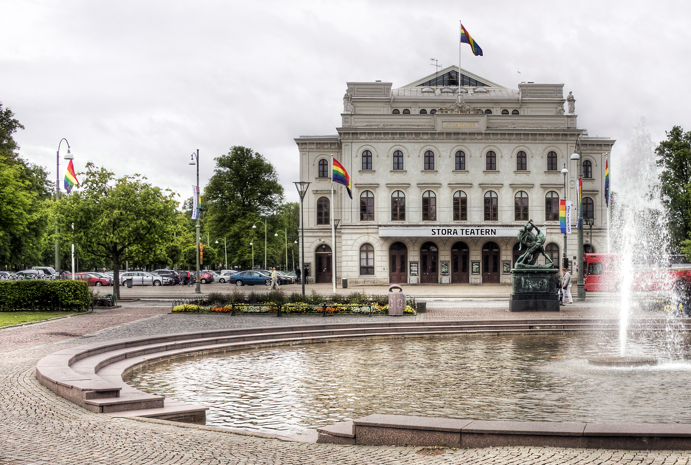 Stora Teatern ("Grand Theater") in Gothenburg, Sweden.